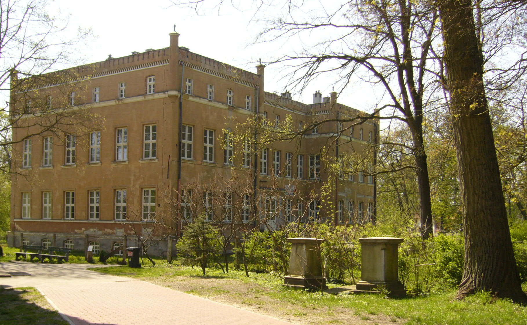 Palace in Dąbroszyn (Poland), July 2010